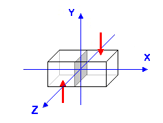 cisalhamento